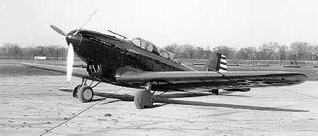 Consolidated Y1A-11